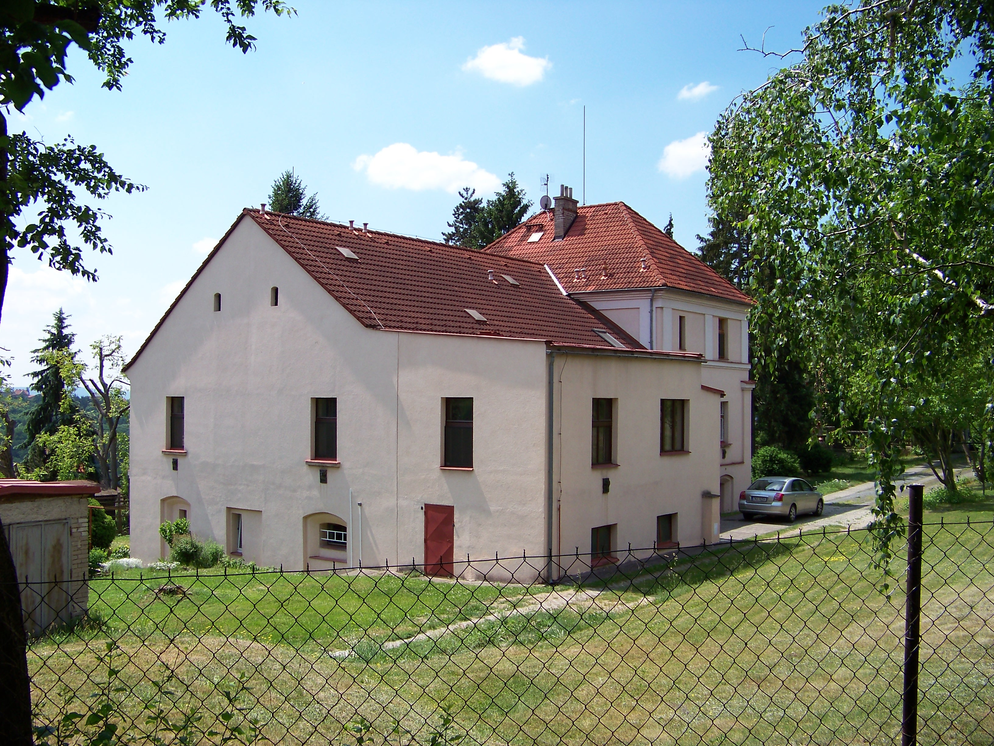 Prague-Braník, the Czech Republic. Zemanka homestead, seen from U Ryšánky street.